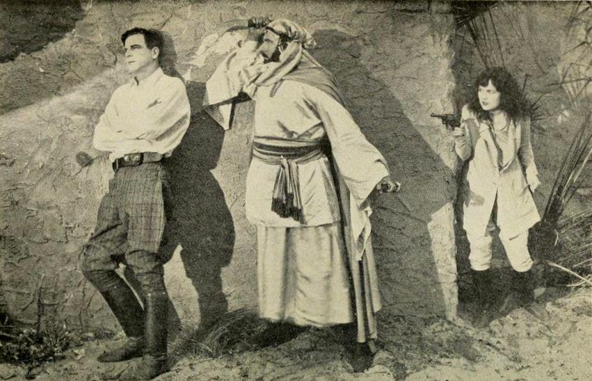 Still from the American drama film Burning Sands (1922) with Milton Sills, an unidentified actor, and Jacqueline Logan, from the front piece of the 1922 edition of the novel.